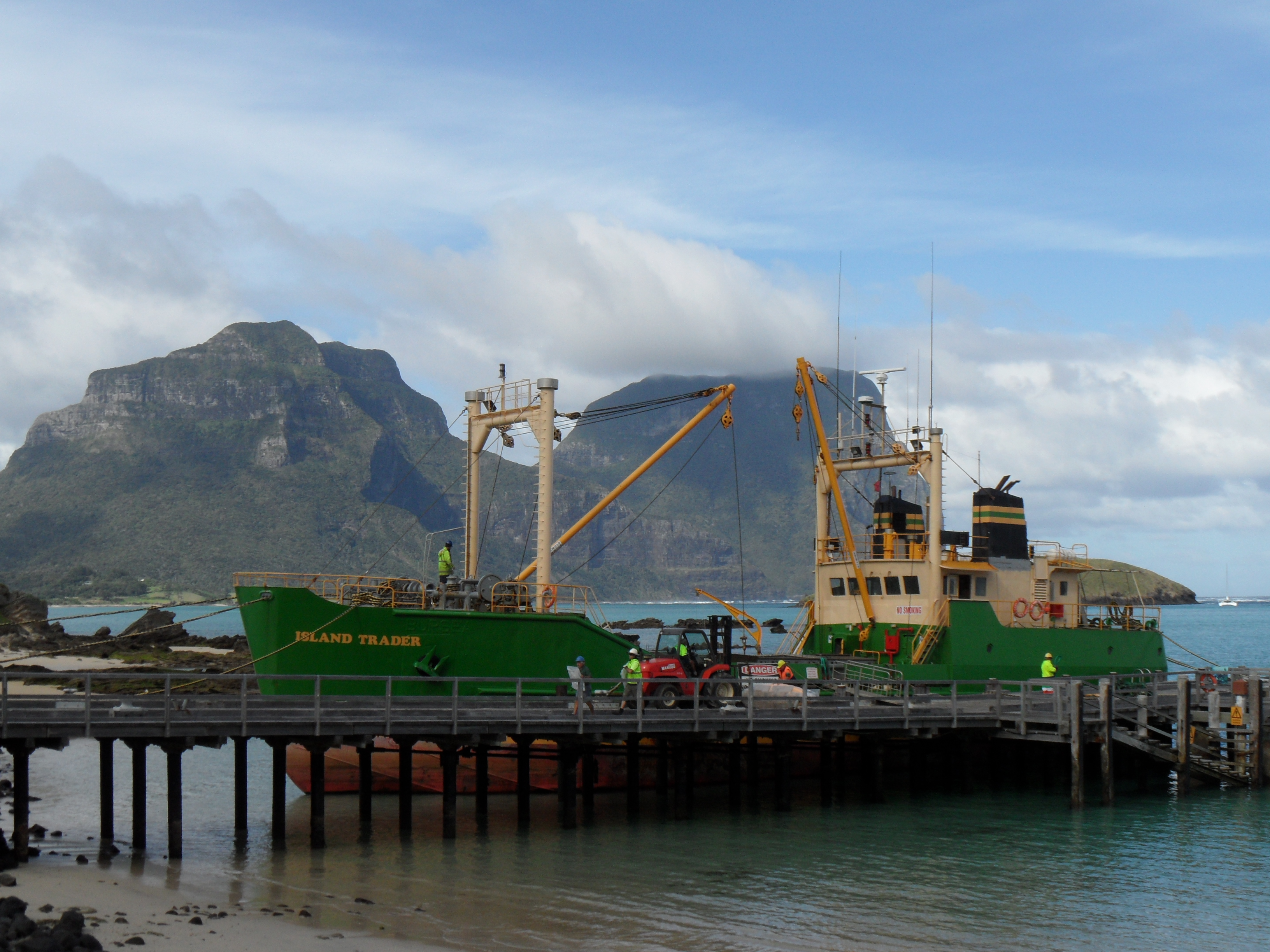 Island Trader from Port Macquarie provisioning Lord Howe Island mostly fortnightly - 11 June 2011